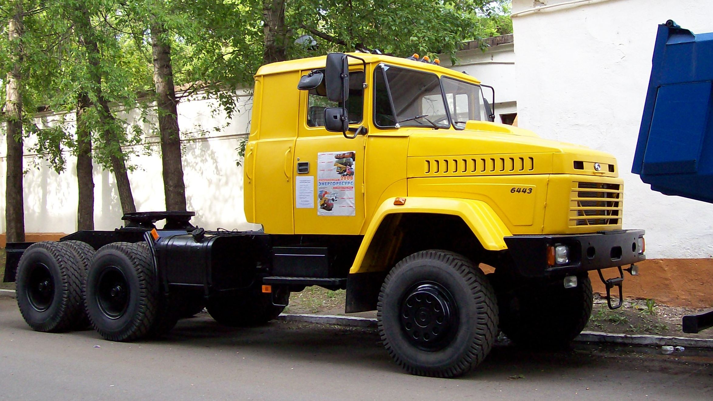 KrAZ 6443